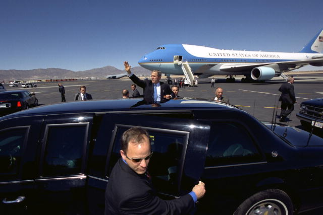 President George W. Bush waves to a crowd of people who came to see him off on his visit to Latin America at his departure from El Paso Thursday, March 21, 2002.